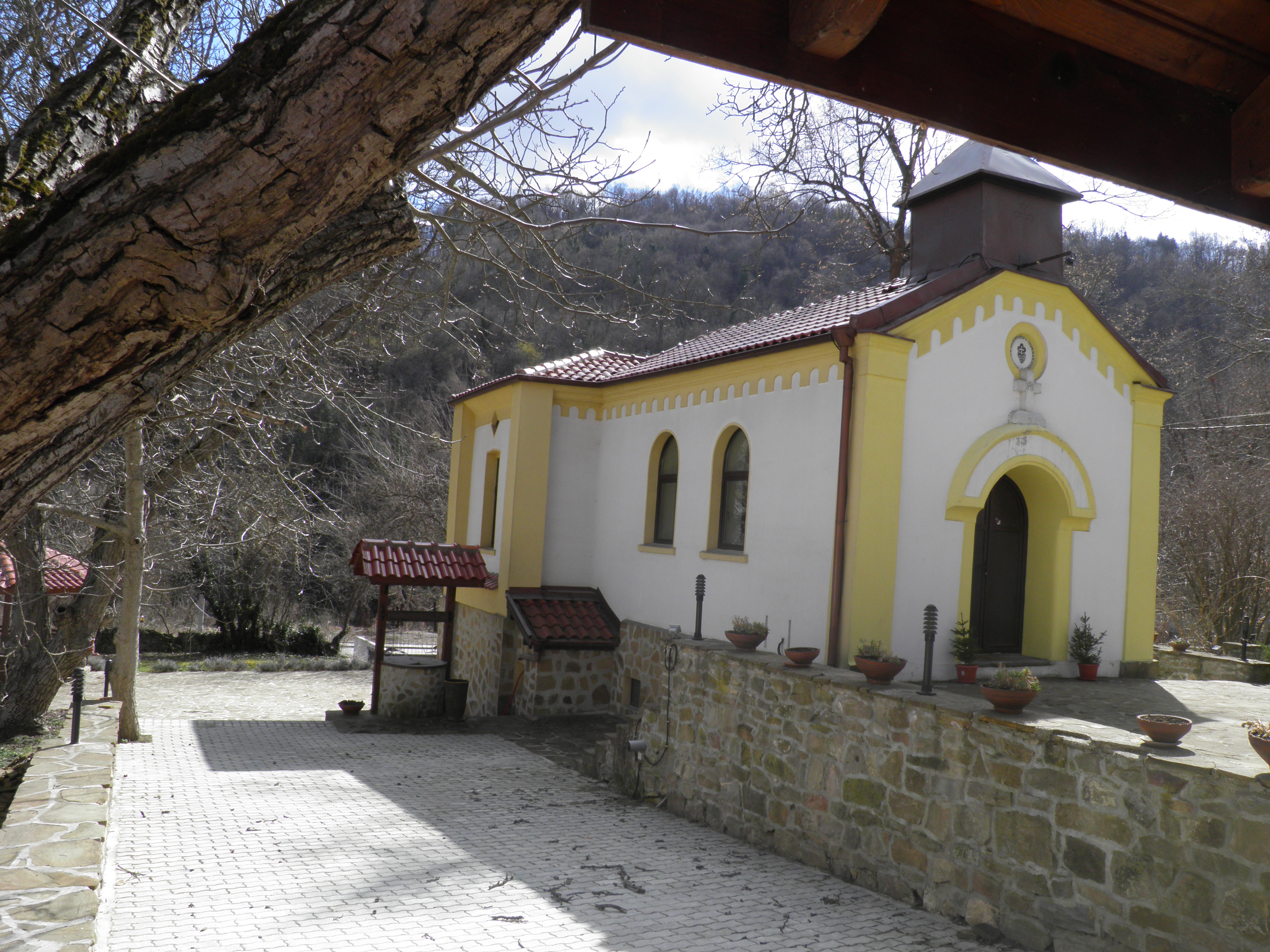 Catholic church Our Lady of Rosary